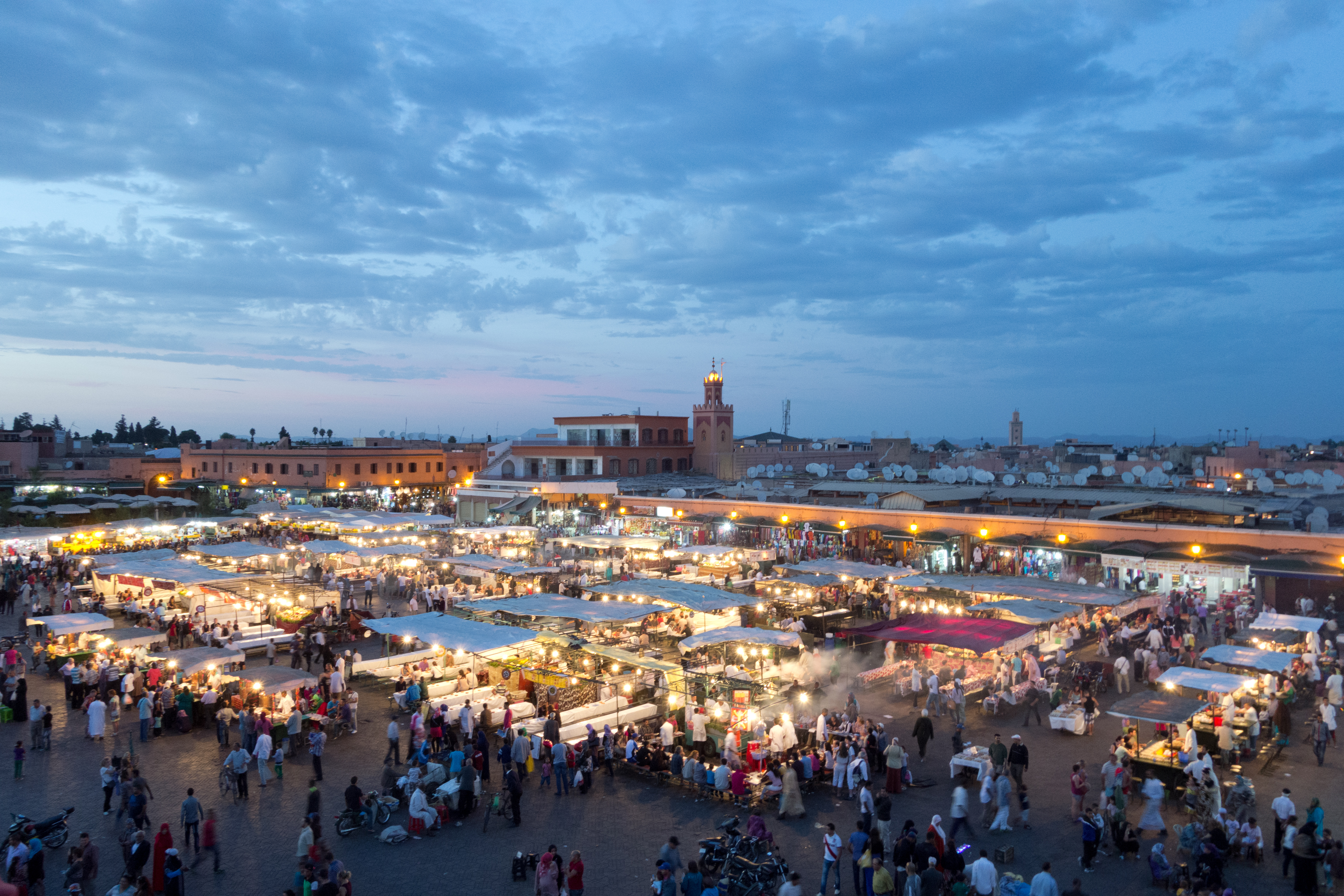 Djemaa el Fna (La Place) in Marrakech. October 2013